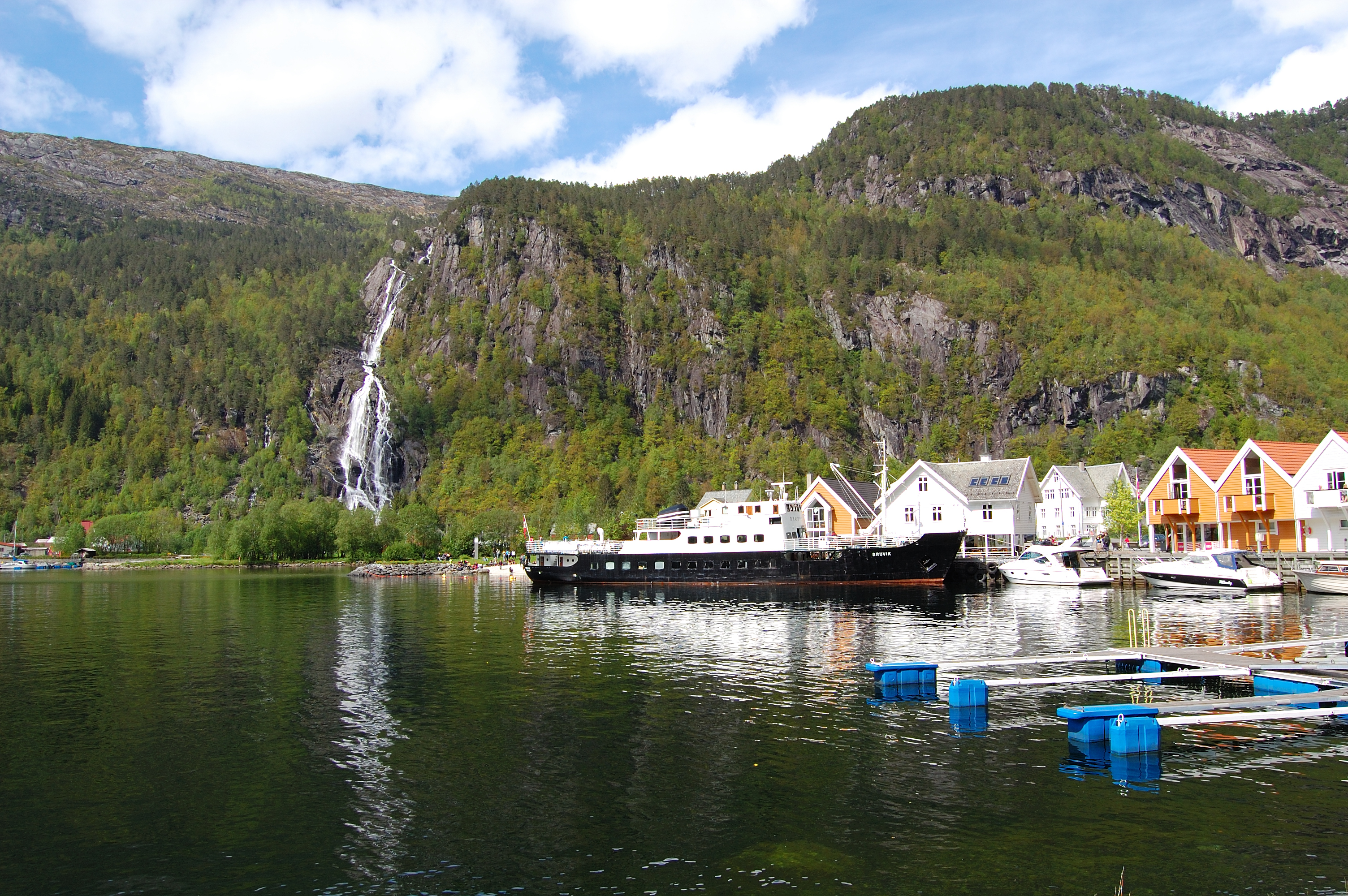 Norwegian fjord ship Bruvik (IMO 5054343) in Mo, Norway. Information about Bruvik may be found at IMO 5054343. A ship can change her name and flag state through time, but the IMO number remains the same through the hull's entire lifetime. Therefore, it's useful to identify a ship through her IMO number.